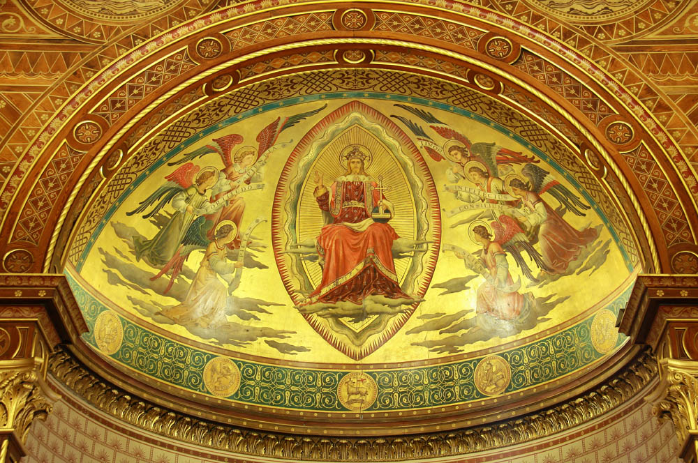 King's College Chapel, Strand - Apse roof